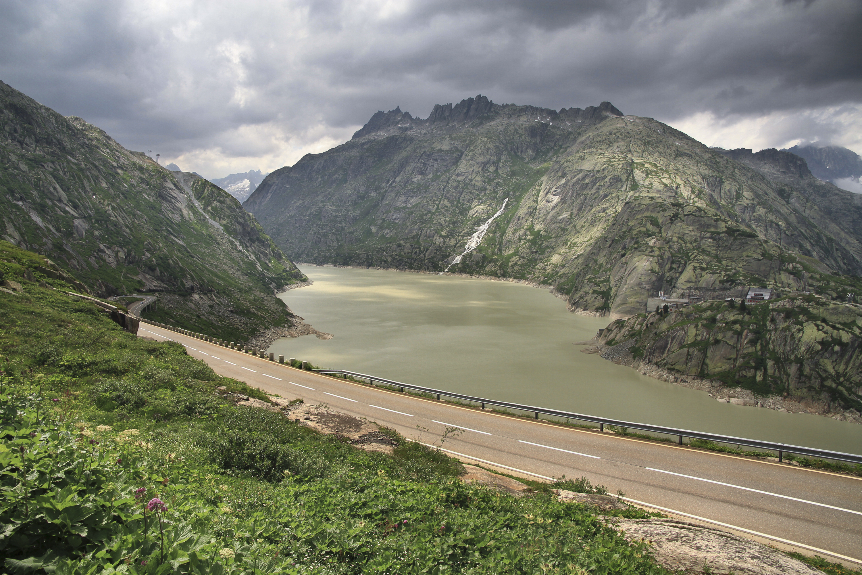 A view to Grimselsee towards west near Grimselpass, Bern, Switzerland in 2010 July.